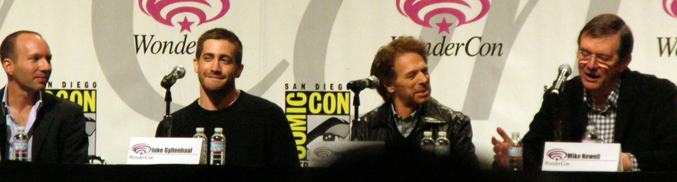 The Prince of Persia: The Sands of Time panel at WonderCon 2010. From left to right: the game's creator and co-screenwriter for the film, Jordan Mechner, lead actor Jake Gyllenhaal, producer Jerry Bruckheimer, and director Mike Newell.